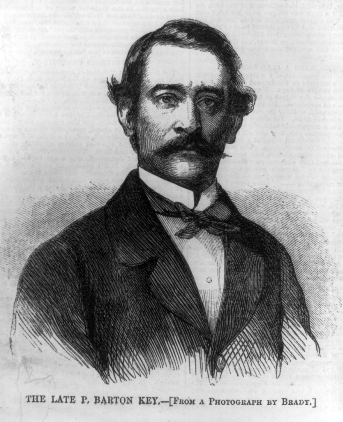 Engraving of Philip Barton Key II, from a photograph by Mathew Brady. Illus. in: Harper's Weekly, 1859 March 12, p. 168.